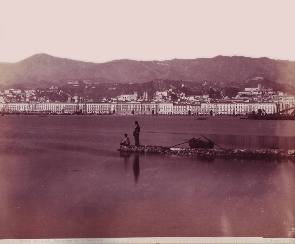 Giorgio Sommer (1834-1914), "Messina - View from San Salvatore". Catalogue # 8740.